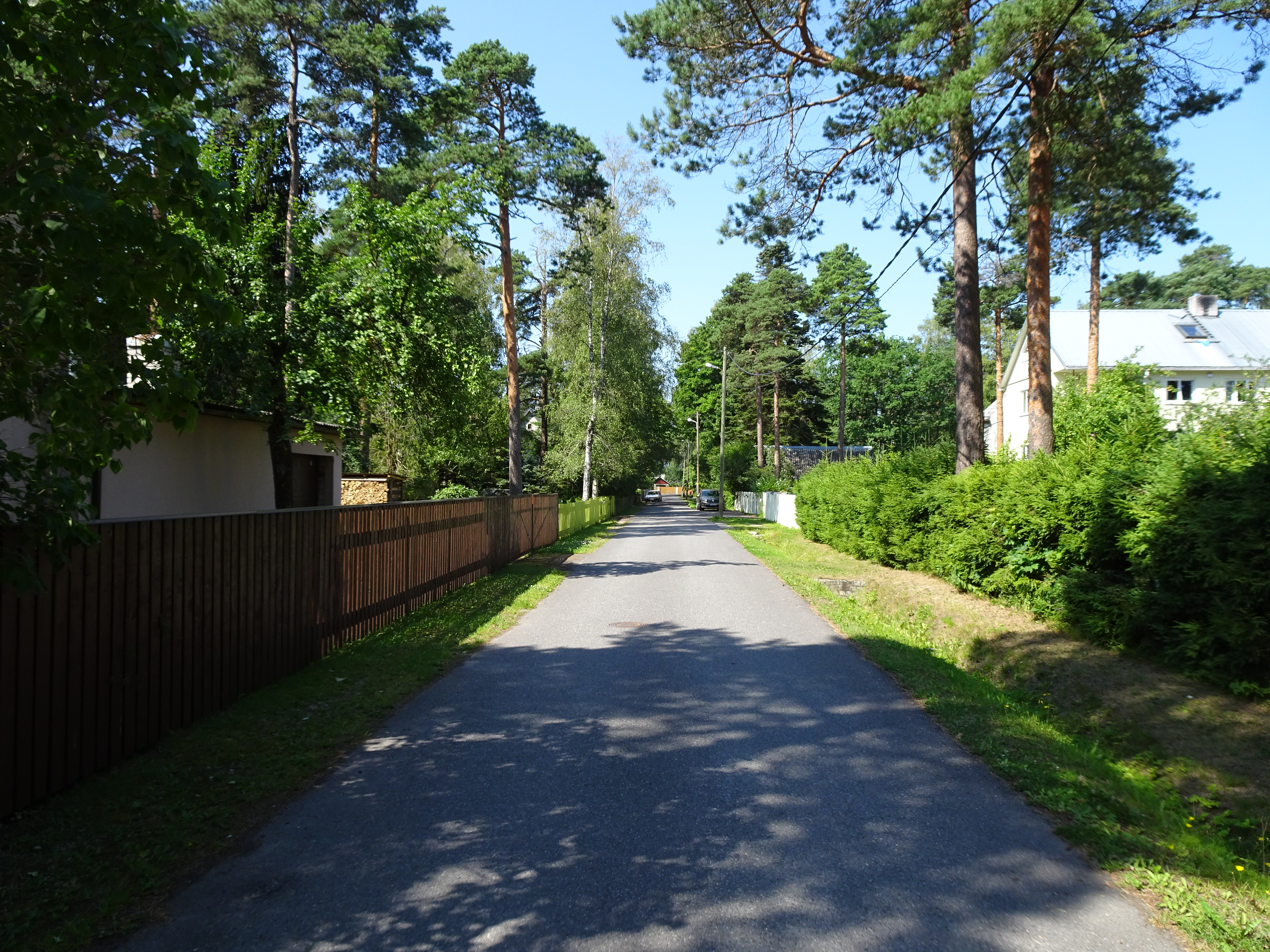 Sireli Street in Tallinn, Estonia